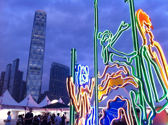 香港美酒佳餚巡禮, Hong Kong Wine and Dine Festival 2012, West Kowloon, Hong Kong